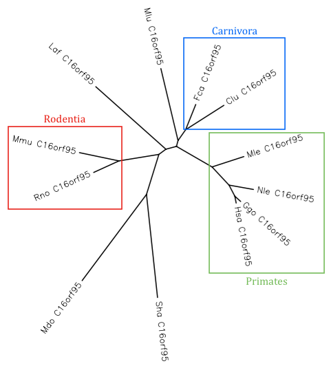 An unrooted phylogenetic tree showing the evolutionary relationships among a subset of orthologs. Three mammalian orders are labeled.